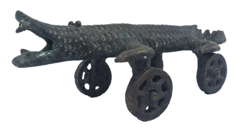 Miniature lantaka buaya.Length: 33 cm / 13 inchesHeight: 9 cm / 3.5 inchesWidth: 9.5 cm / 3.7 inchesWeight: 1.3 kg / 2.8 lb